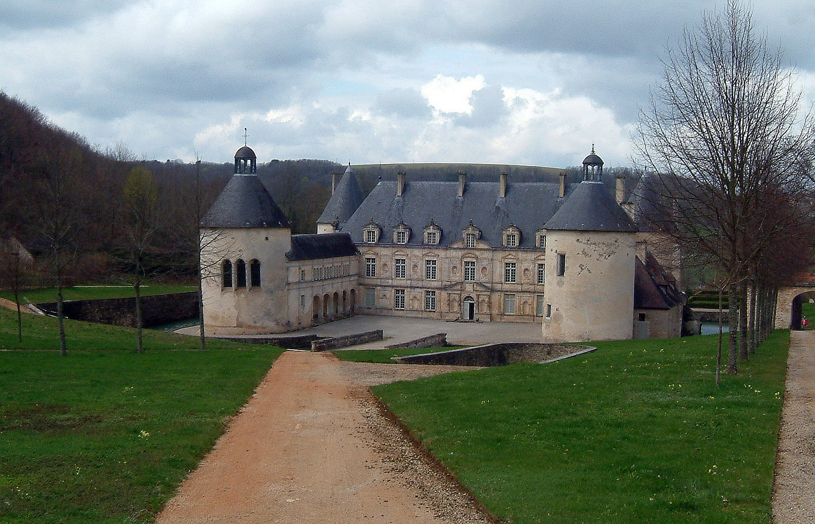 Chateau de Bussy-Rabutin, Bussy le Grand, Bourgogne, France